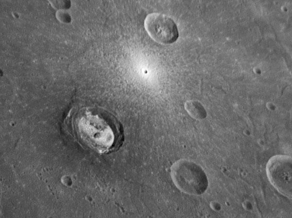 Western part of Caloris Planitia on Mercury. Photo, made by MESSENGER (14 January 2008). Resolution is 260 m/pixel, photo width — about 150 km (the view is not directly from the top). Map of this area. Description from NASA photojournal: Located in the western edge of Mercury's giant Caloris basin (PIA10383), Kertész crater (recently named for André Kertész, a Hungarian-born American photographer) has some unusual, bright material located on its floor. Sander crater (PIA10603), located in the northwestern edge of Caloris basin, also shows bright material on its floor. The MESSENGER Science Team is investigating the nature and composition of these bright materials and making comparisons between these two craters both located at the edges of Caloris basin. Just northeast of Kertész, a small crater has very bright rays and ejecta in this image, indicating that the crater is young. Date Acquired: January 14, 2008 Image Mission Elapsed Time (MET): 108826812 Instrument: Narrow Angle Camera (NAC) of the Mercury Dual Imaging System (MDIS) Resolution: 260 meters/pixel (0.16 miles/pixel Scale: Kertész crater is 34 kilometers (21 miles) in diameter Spacecraft Altitude: 10,200 kilometers (6,340 miles)